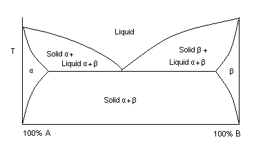 Binary phase diagram of eutectic alloy This image created by me, Bryan Antman, on November 19, 2004. Bantman 21:49, 19 Nov 2004 (UTC)